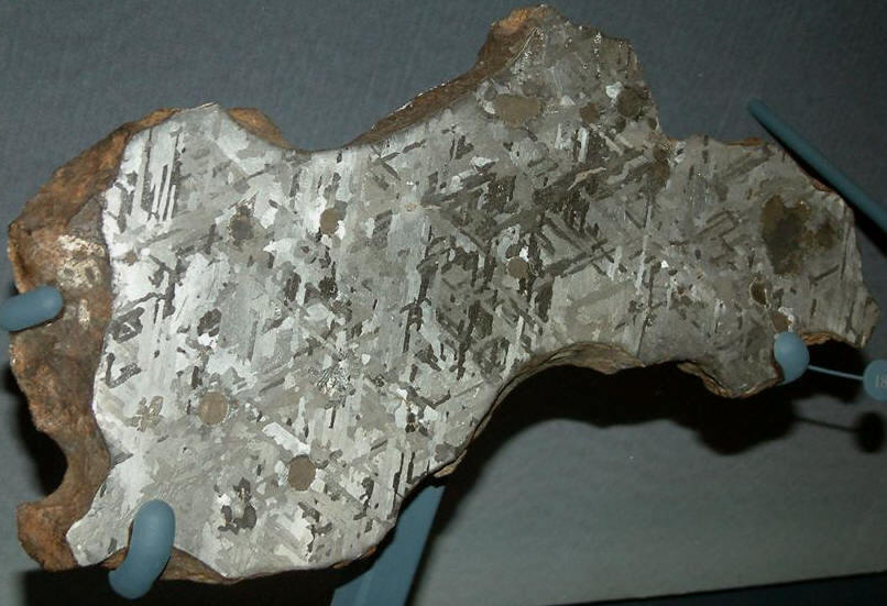 Octahedrite - large cut-polished-nitric acid etched slice of the Canyon Diablo Meteorite that fantastically displays the Widmanstätten structure. Meteor Crater (Barringer Crater) in the Arizona desert was formed by the impact of an octahedrite ~49,000 years ago during the Late Pleistocene. The rock shown here is a fragment of the impactor, the Canyon Diablo Meteorite. Such fragments have been collected for decades from the desert surrounding the crater. Canyon Diablo is composed of ~90% kamacite, ~1-4% taenite, and up to 8.5% troilite-graphite nodules (FeS & C). The original mass has been estimated to be 100 feet across & about 60,000 tons. Canyon Diablo rocks are well dated to 4.55 billion years. Field Museum of Natural History public display (Chicago, Illinois, USA).